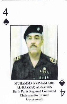 Four ♠: Muhammad Zimam Abd al-Razzaq, Ba'ath Party branch command chairman (#41, was #23)